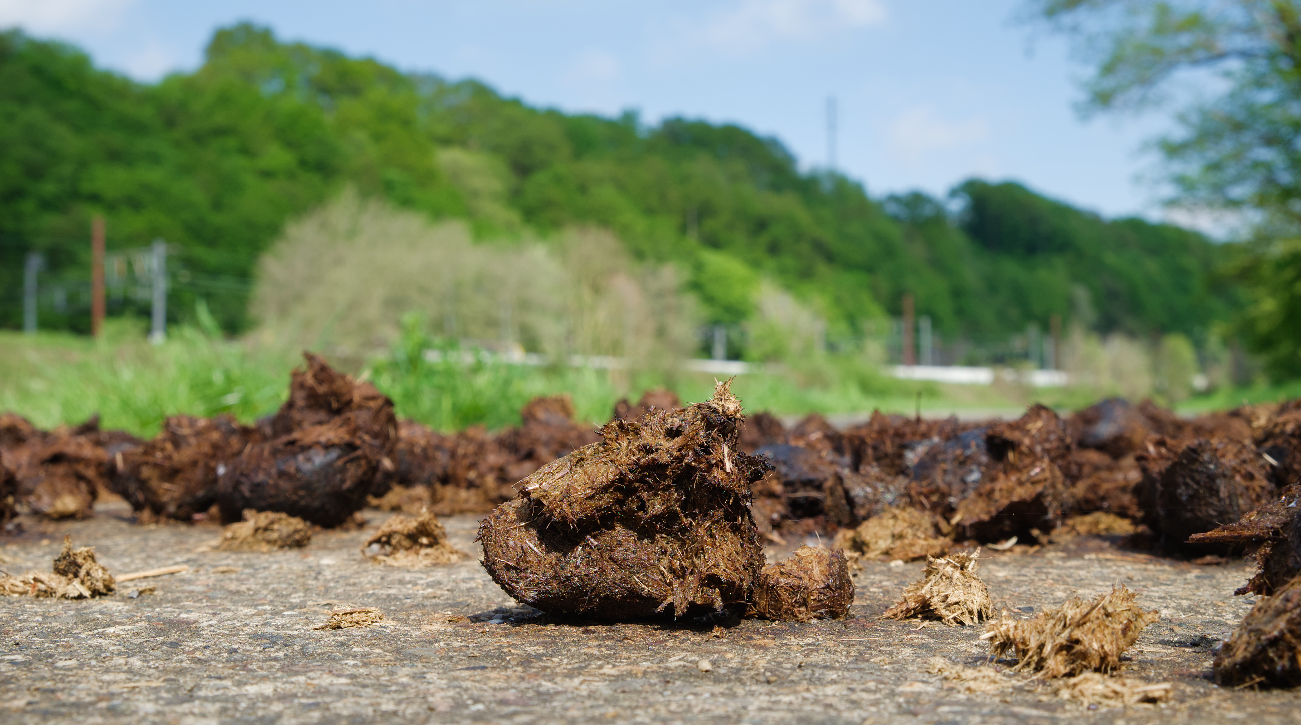 Horse poop on Quai de l'Abbaye, Namur